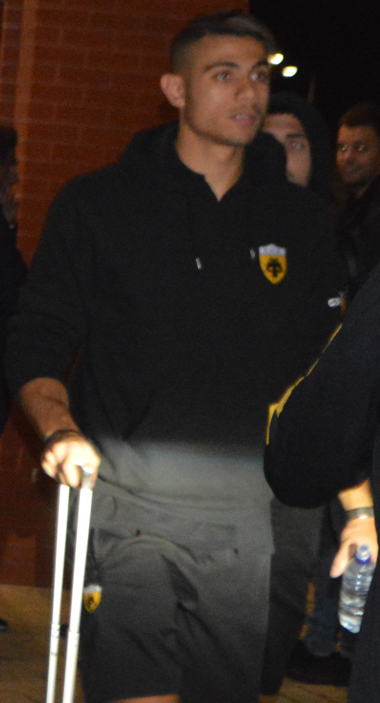 Giakoumakis with AEK